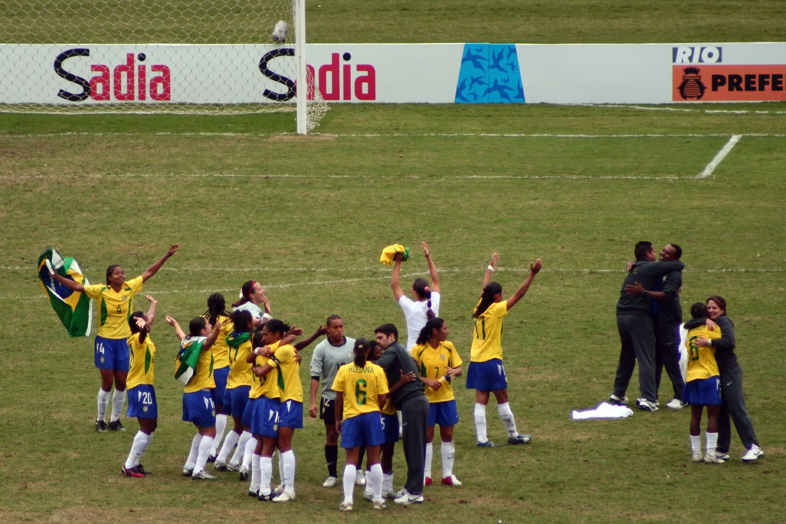 Brazilian players celebrating after the final of the 2007 Pan American Games